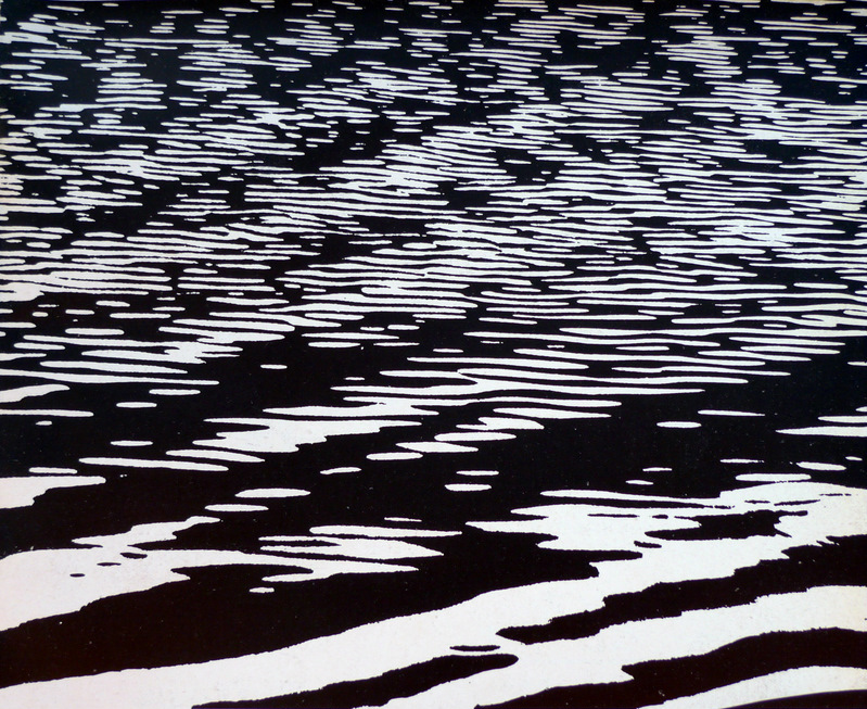 Sazanami (Wavelets) by Kitazumi Genzo. Kokugakai Arts Association, Photography Award winning work from 1940.